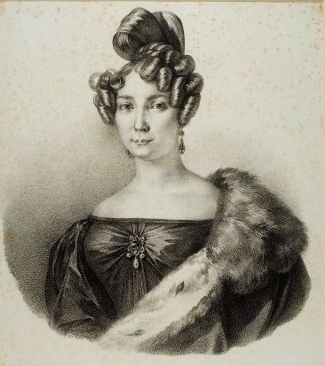 Lithograph portrait of the Italian opera singer Isabella Fabbrica (c. 1802 – c. 1860)